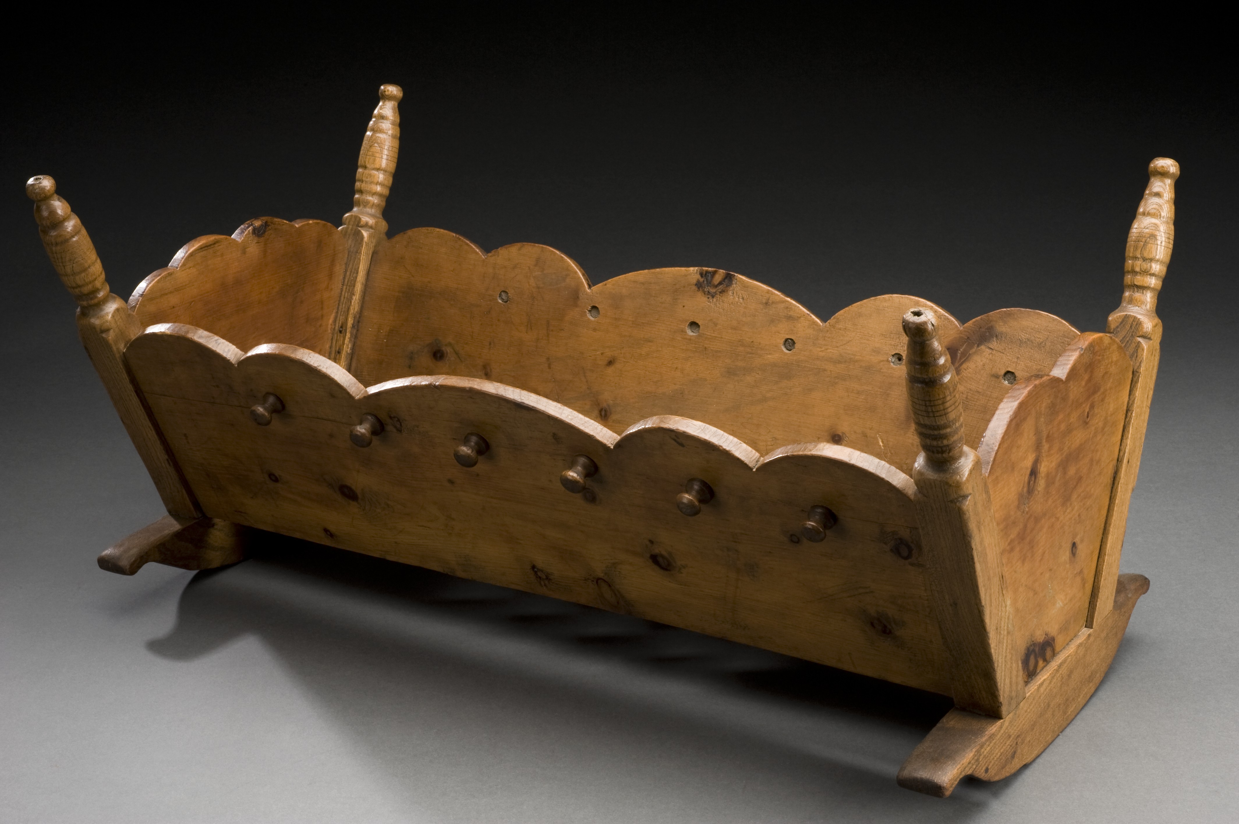 Savoyard baby's rocking cradle, 18th century. Full 3/4 view, graduated grey background. Wellcome Images